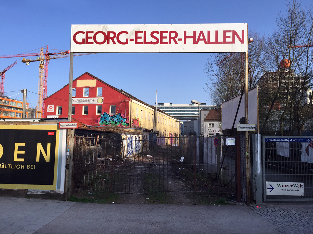 Entrance to the former nightclub Georg-Elser-Hallen in Munich, which closed in July 2008. In the background the building that housed the former techno club Grinsekatze can be seen.